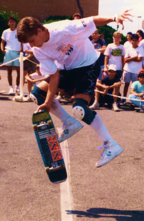 Rodney Mullen, September 1988